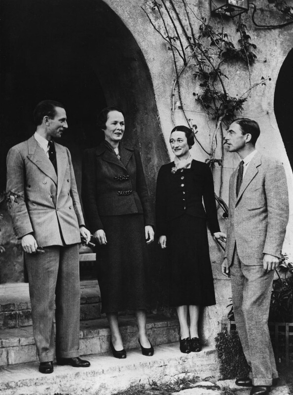 Herman Rogers; Katherine Rogers; Wallis, Duchess of Windsor; Peregrine Francis Adelbert Cust, 6th Baron Brownlow by Daily Express modern bromide print from original negative, 8 December 1936 8 in. x 6 in. (204 mm x 153 mm) Given by IPC Newspapers Limited, 1971 Photographs Collection NPG x88269